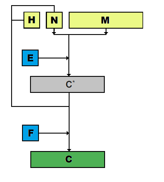 Encrypt-then-mac(AEAD)